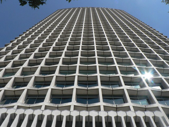 London: looking up Centre Point, St. Giles Circus A view up a modern office block just off Charing Cross Road.